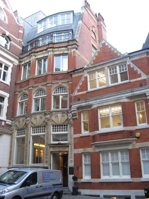 Pountney Hill House, Laurence Pountney Hill, EC4